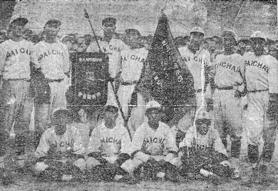 Baseball at the 1922 Korean National Sports Festival.